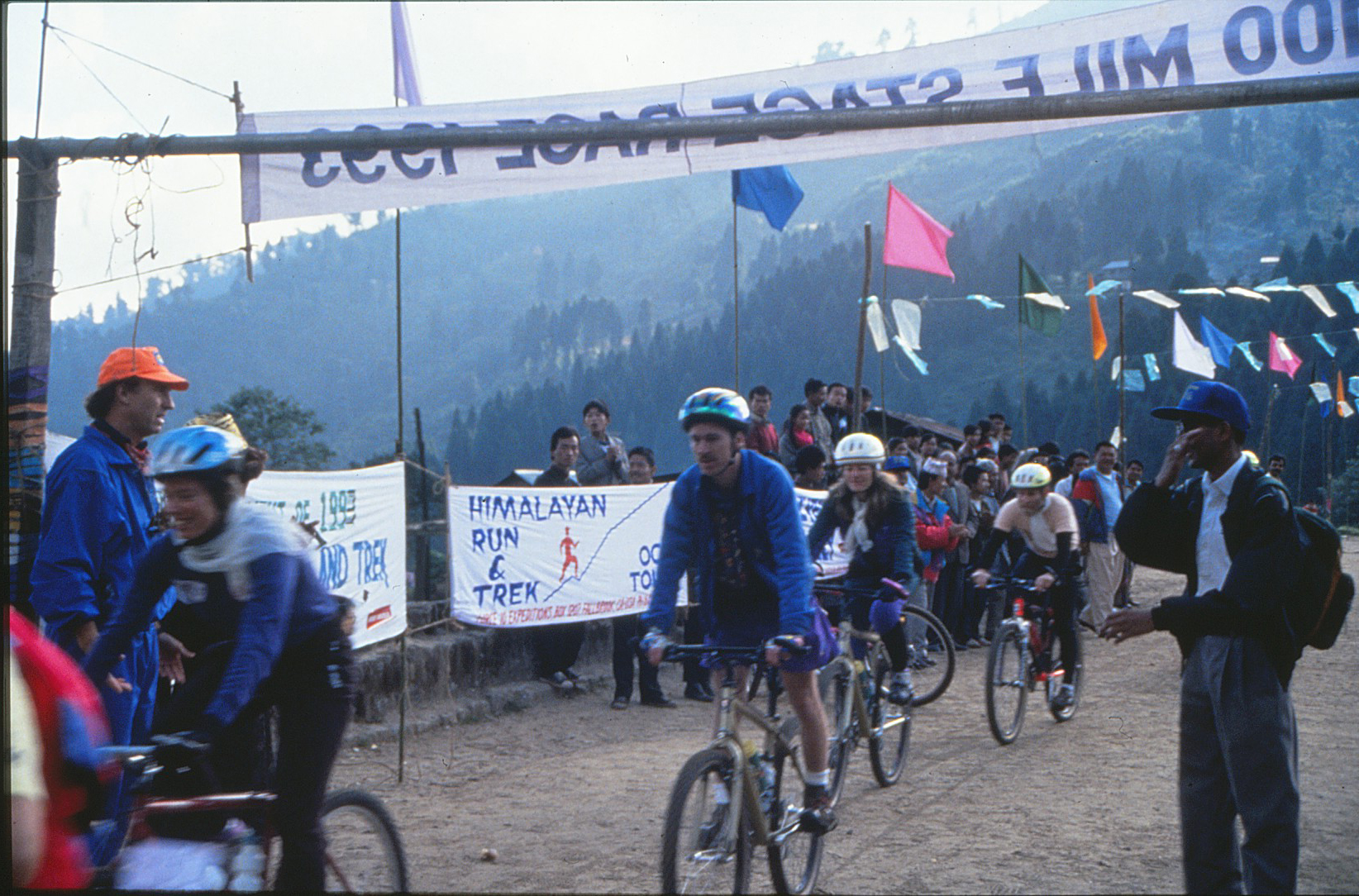 The start of the First Ever Himalayan Mountain Bike Rally, in Maneybhanyjang, India. Mountain bikers include Mark Schulze and Patty Mooney of San Diego, California.